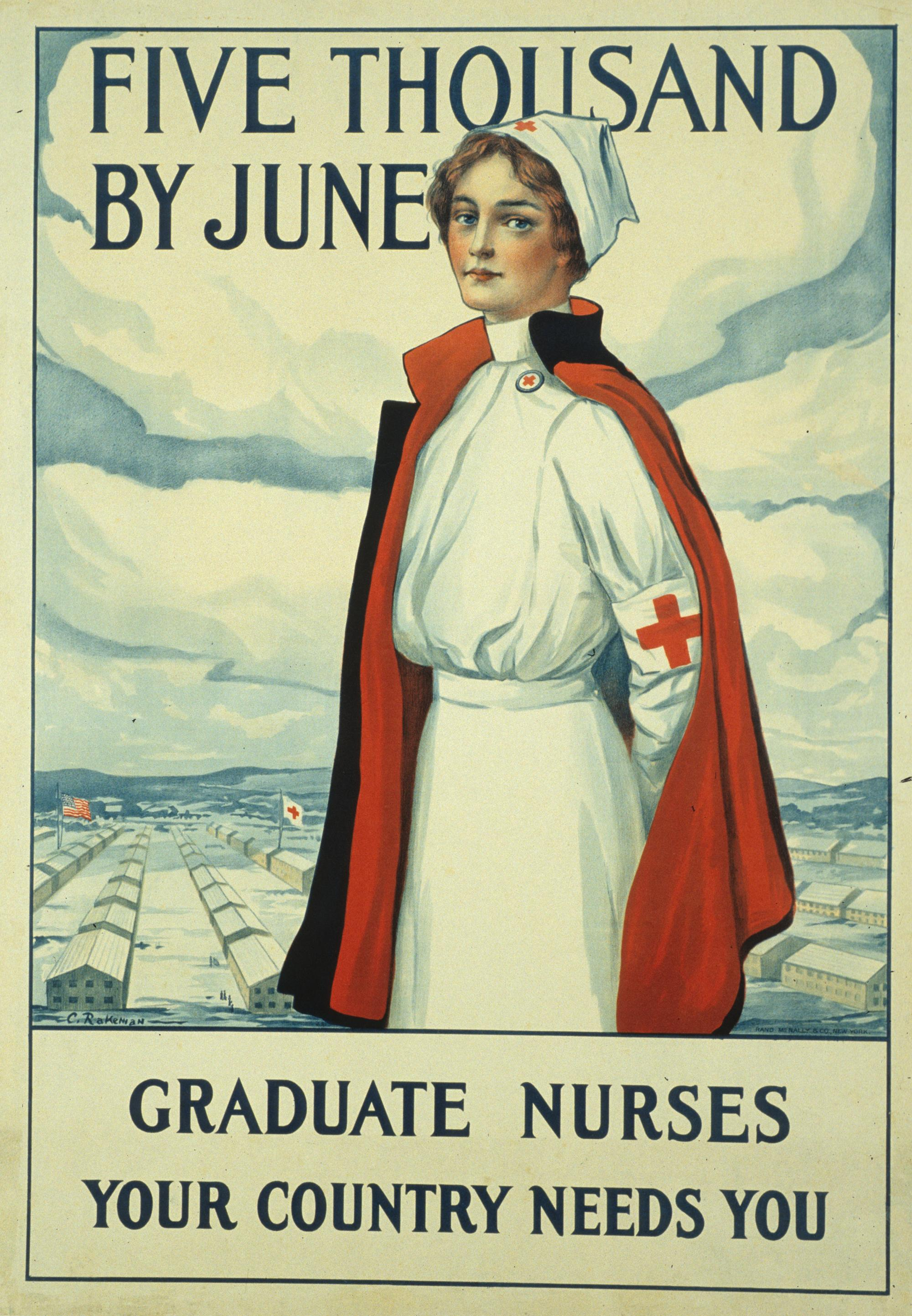 Contributor: C. Rakeman. Contributor (Organization): American Association of the Red Cross. Publication Date: 1918 Physical Description: 1 photomechanical print (poster) : col. ; 71 x 50 cm. Image Description: The poster is white and has the picture of a Red Cross nurse with a barracks in the background. The nurse is wearing a white uniform with the Red Cross logo on it and has a blue cape lined in red draped over her shoulders. The American flag and Red Cross flag are part of the barracks scene.